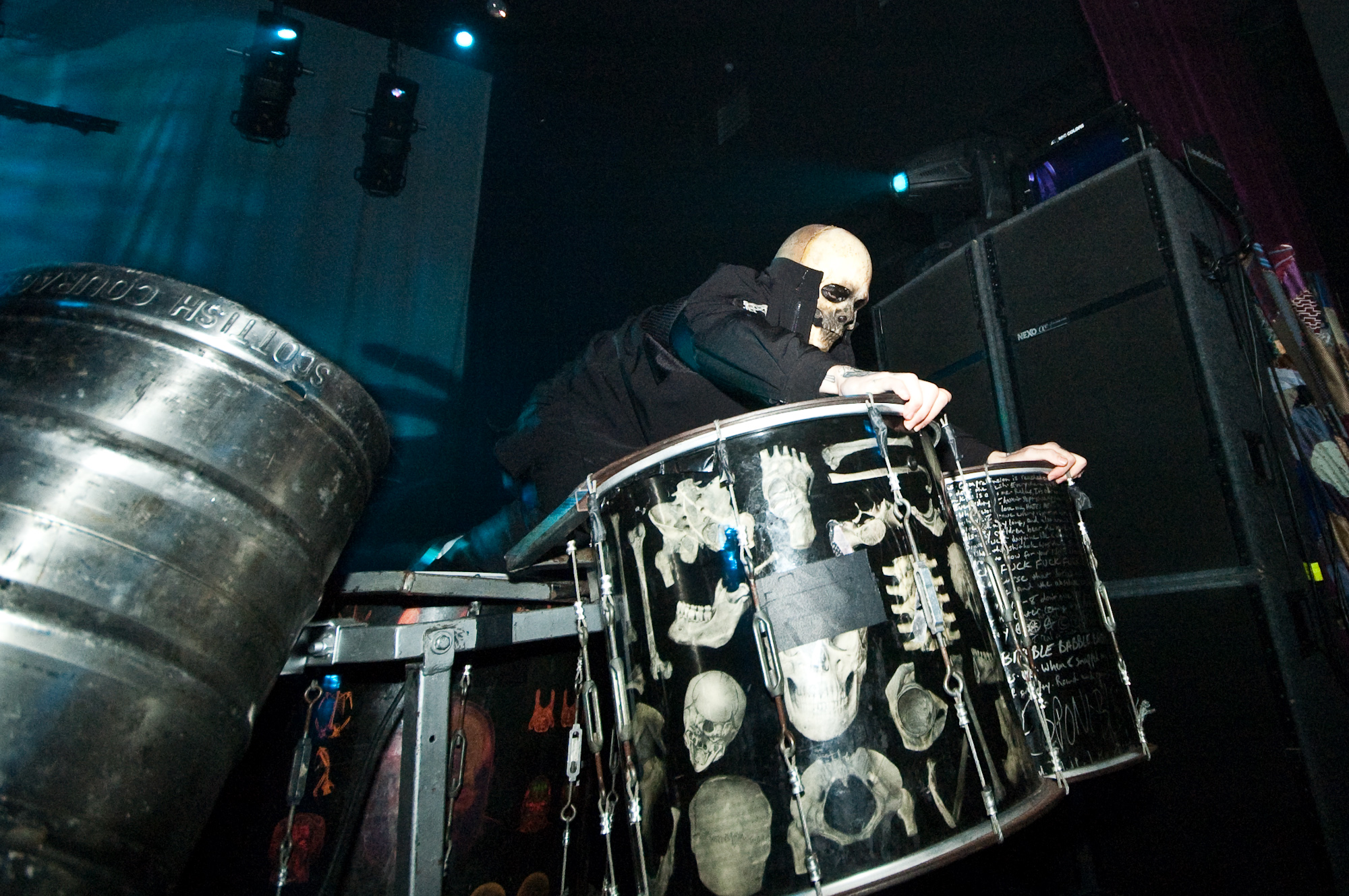 DJ Sid Wilson performing in metal band Slipknot in 2005.